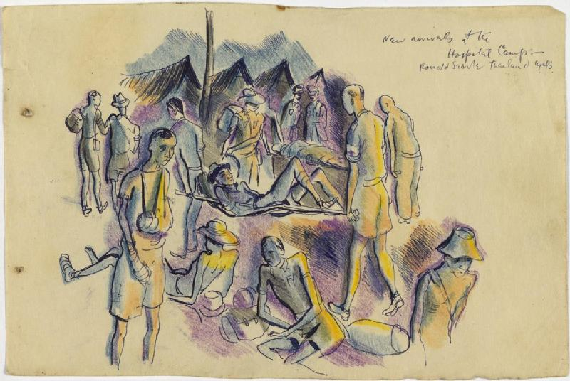 New Arrivals at the Hospital Camp image: men on stretchers are carried towards a row of tents by soldiers wearing arm bands marked with the red cross. In the foreground injured and sick soldiers lie on the ground with their luggage while another walks past with his arm in a sling and his hand in a bandage.